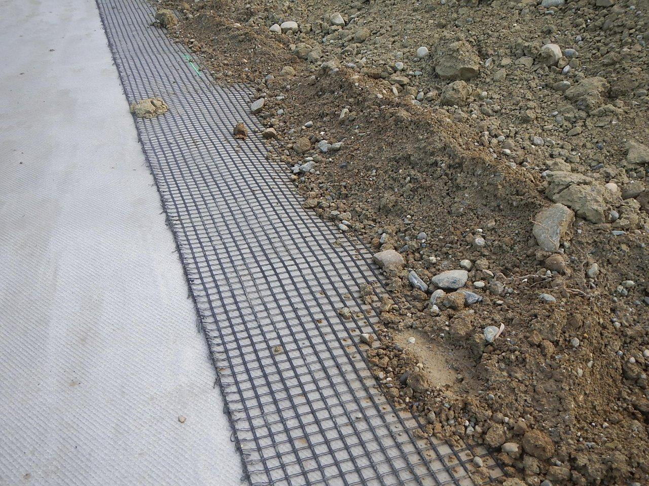 Geogrids on an old landfill, Baden-Württemberg, Germany